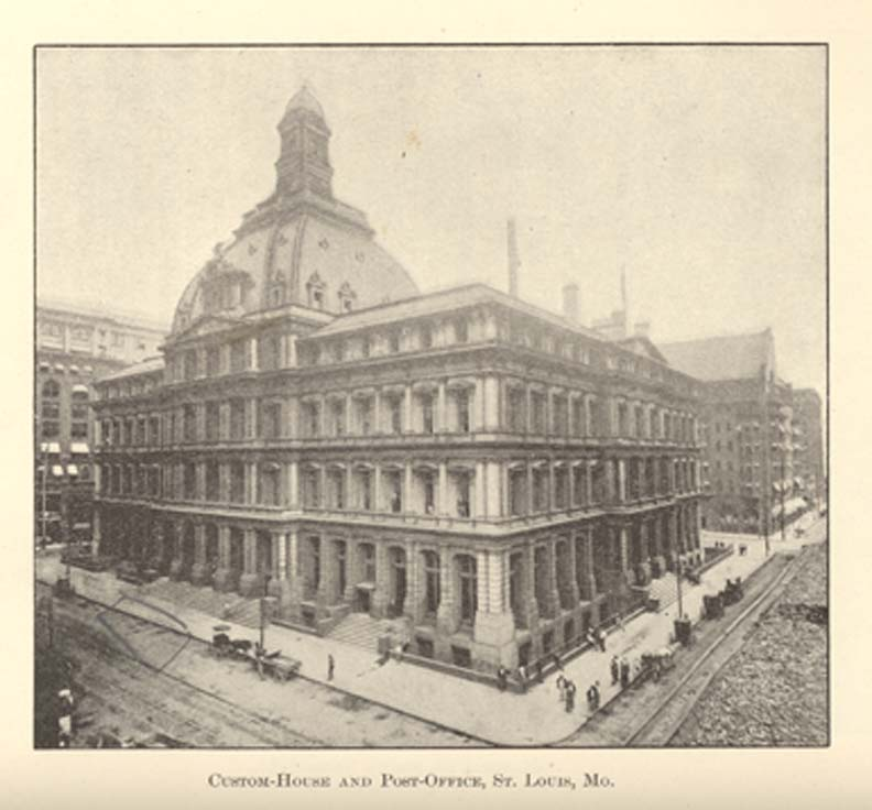 Photograph of the original courthouse of the United States District Court for the Eastern District of Missouri, located in St. Louis, Missouri.